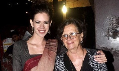 Kalki Koechlin with mother her Francoise Armandie at Prithvi Fest